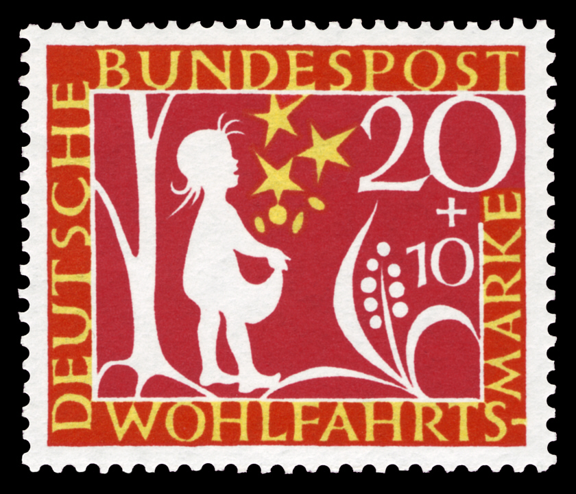 Series for social welfare 1959, fairy tale of the brothers Grimm, The Star Money Graphics by Sporer Ausgabepreis: 20+10 Pfennig First Day of Issue / Erstausgabetag: 1. Oktober 1959 Michel-Katalog-Nr: 324